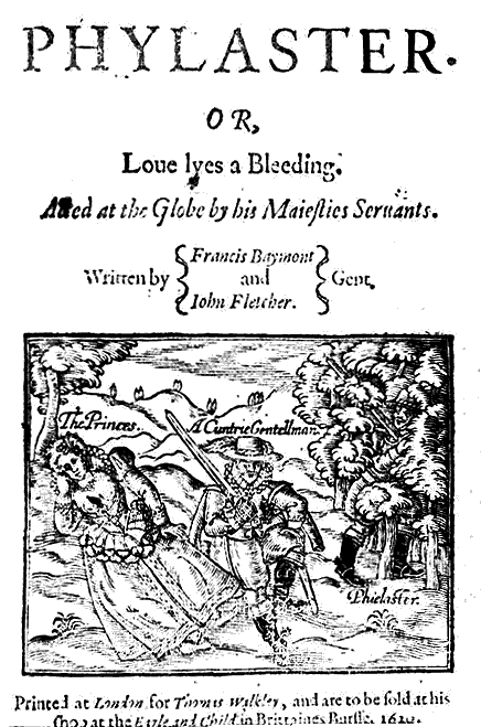 Title page of 1620 quarto of Philaster